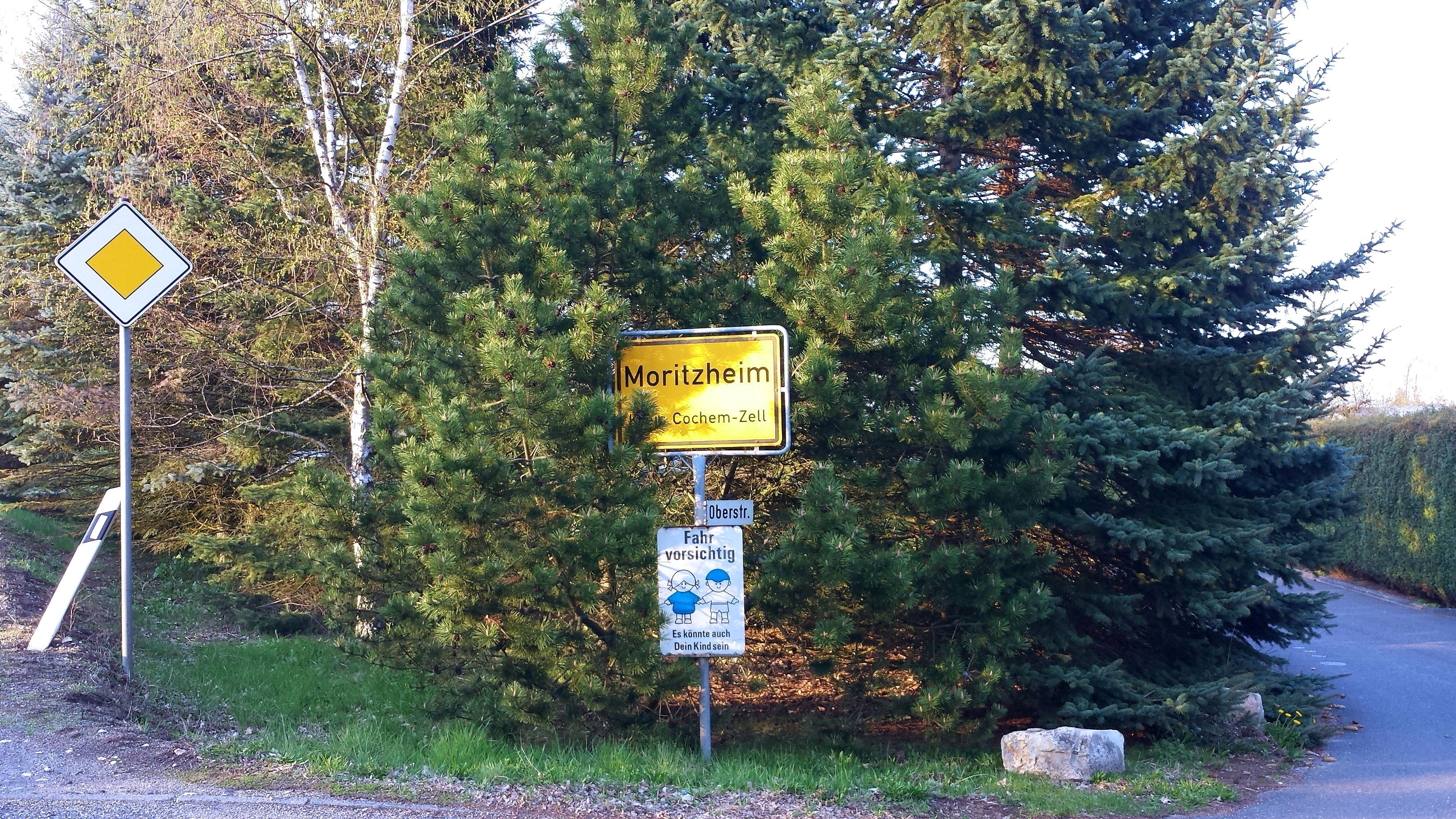 Town sign of Moritzheim